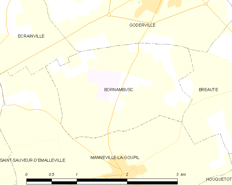 Map of French municipality Bornambusc